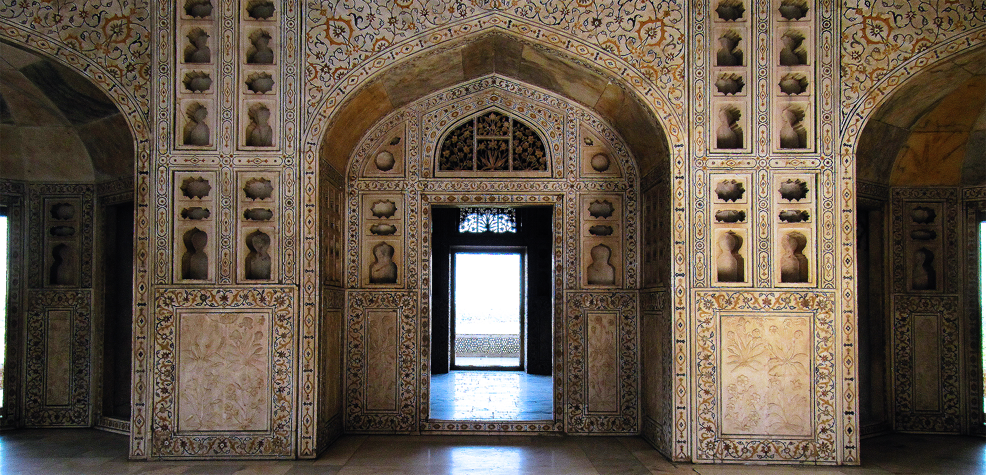 Musamman Burj, central